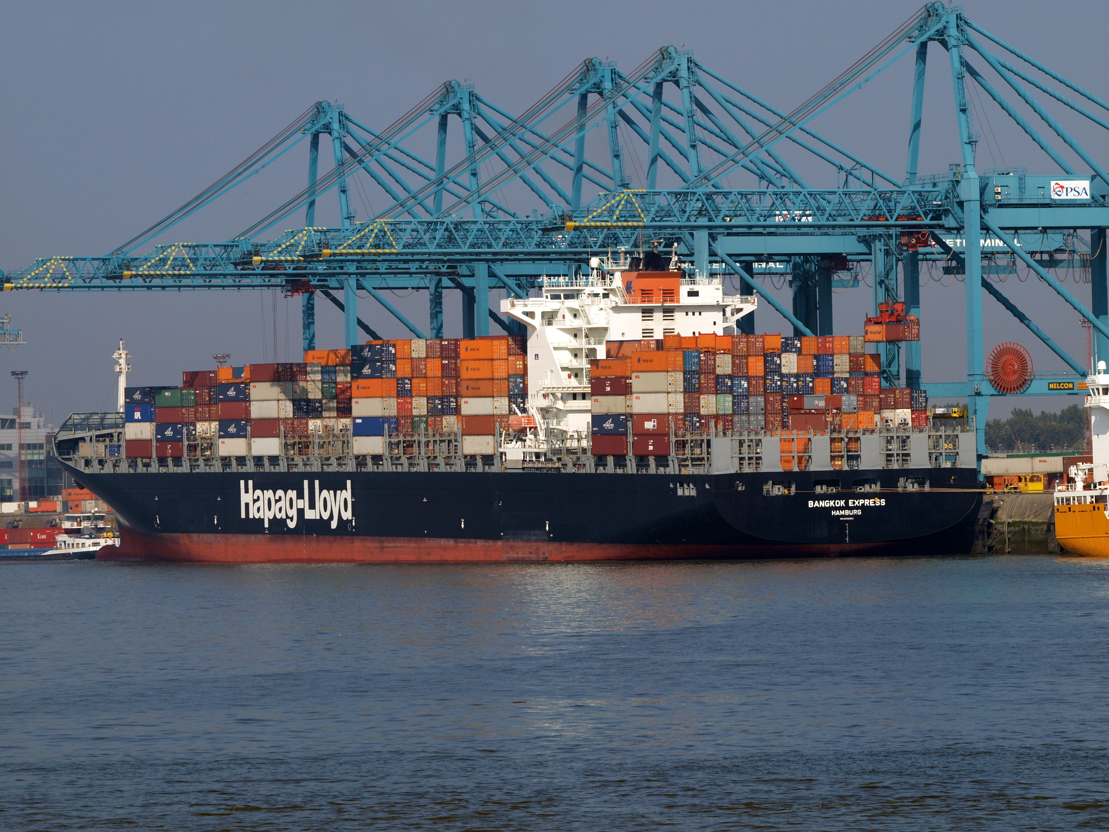 Container ship Bangkok Express at Port of Antwerp 2009-09-19.